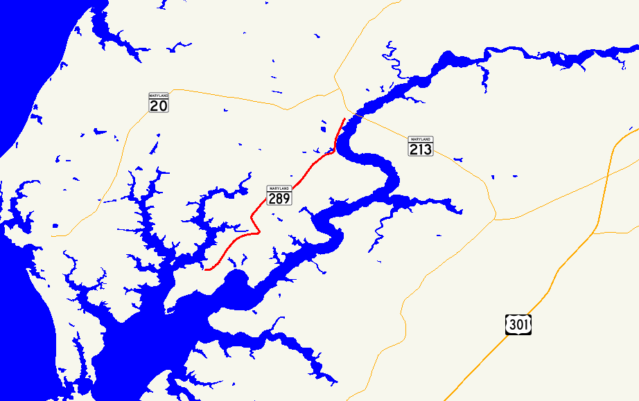 Map of Maryland Route 289